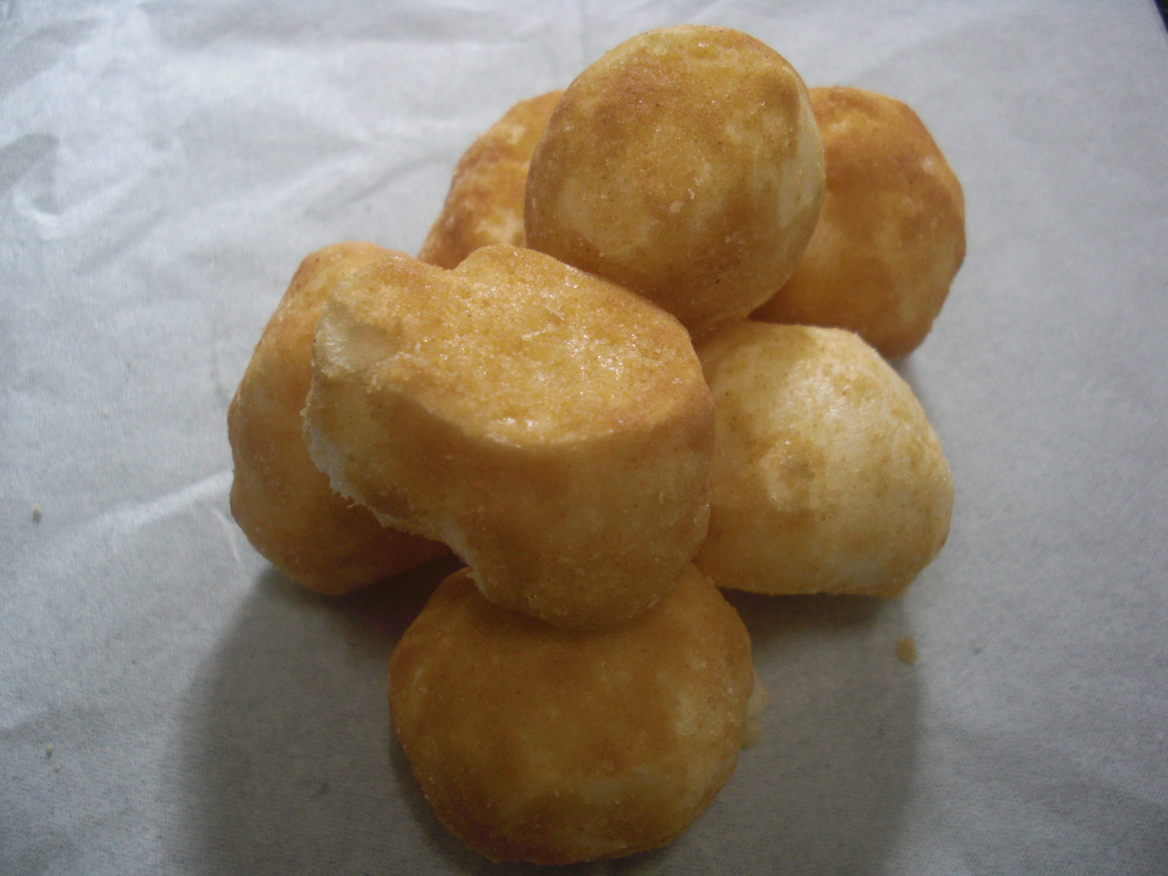 This is a rice cake which is made by ECHIGO SEIKA,Co.,Ltd.